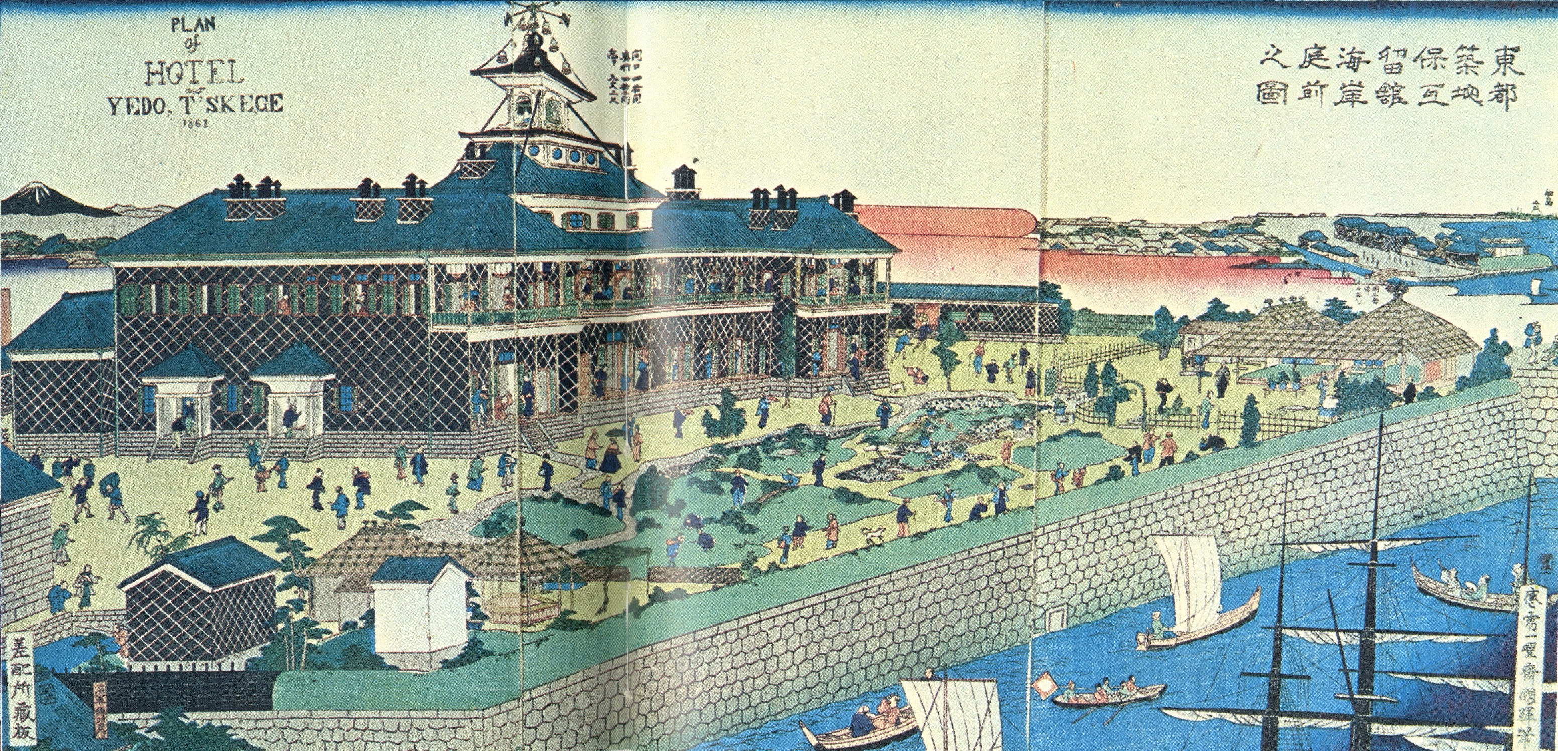 Ukiyo-e woodblock print by Utagawa Kuniteru II, depicting the Tsukiji Hotel, built in Tokyo in 1868.